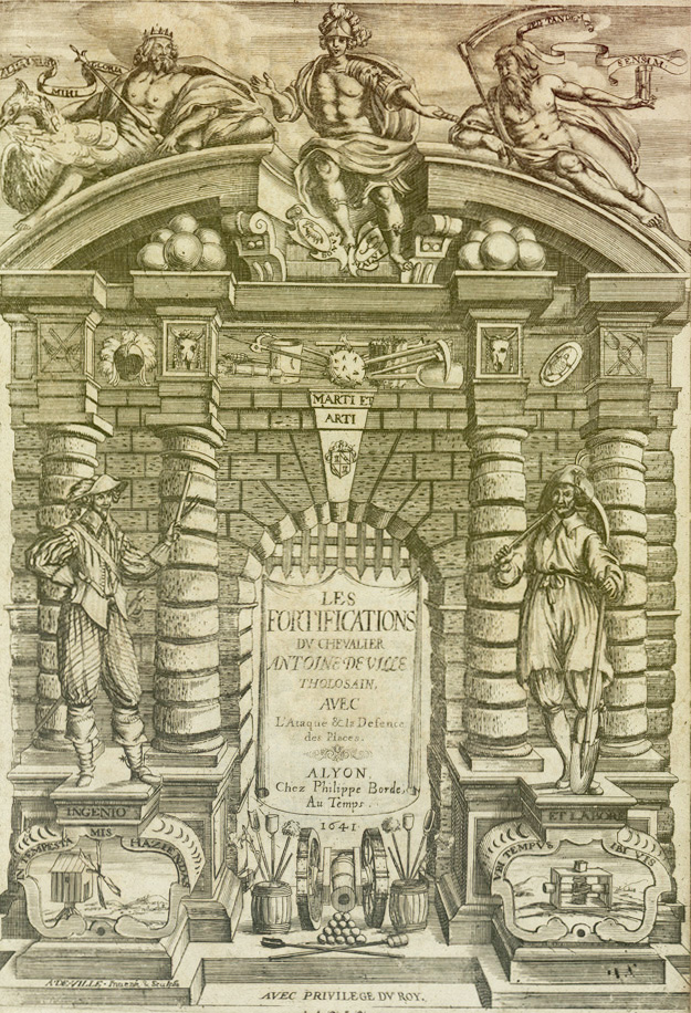 Les fortifications, 1629. Frontispice.